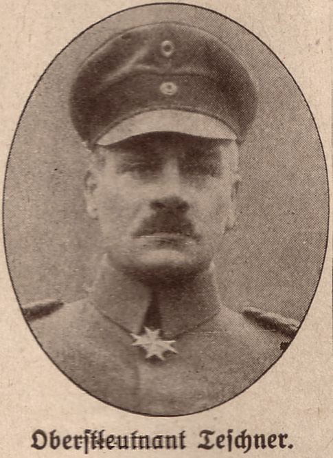 Lieutenant-Colonel Otto Teschner